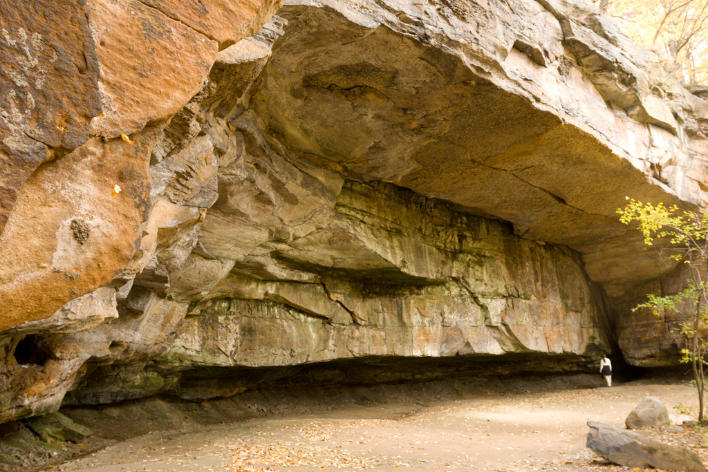 This is a photograph of Mary Campbell Cave, also known as Old Maid's Kitchen. The camera is to the southwest of the cave.